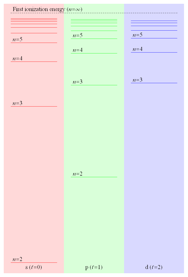 Energy level diagram for lithium including multiple values of the principle quantum number, n, for each of the first three values of the orbital angular momentum quantum number, l. For large n the levels converge on the first ionization energy. Created using Mathematica v6.0. Energy level data taken from "Reference Data on Atoms, Molecules and Ions", Springer Series in Chemical Physics, A.A. Radzig and B.M. Smirnov (1985).